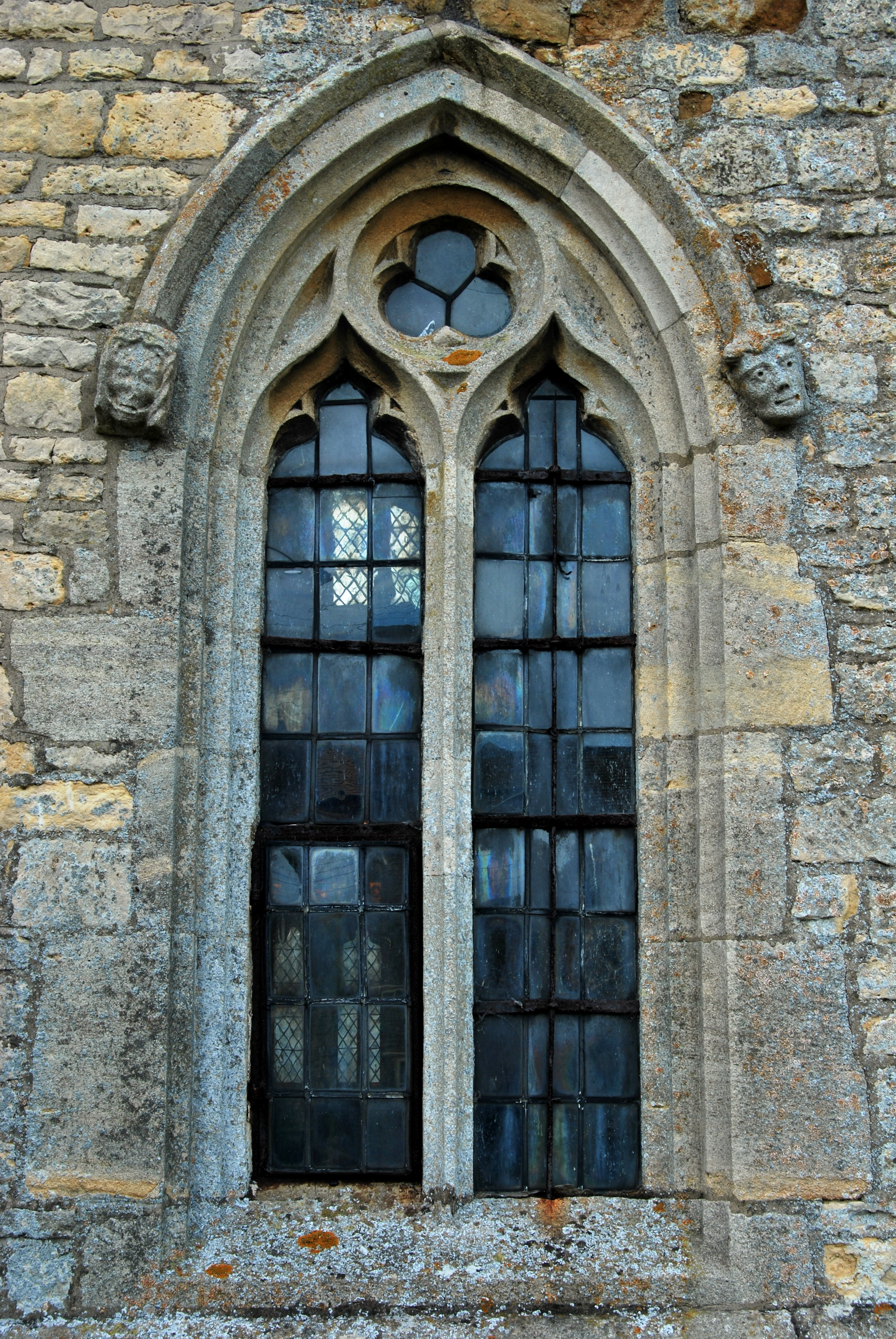 St Mary's parish church, Freeby, Leicestershire: one of the windows of the south aisle